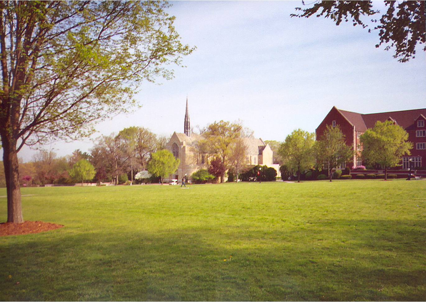 The quad of Grove City College in May 2005, with Harbison Chapel, opened in 1930, on the left, and North Hall, a women's dormitory, on the right.